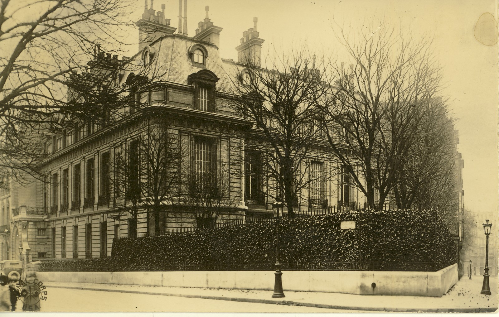 Wilson's residence during the Paris Peace Conference.